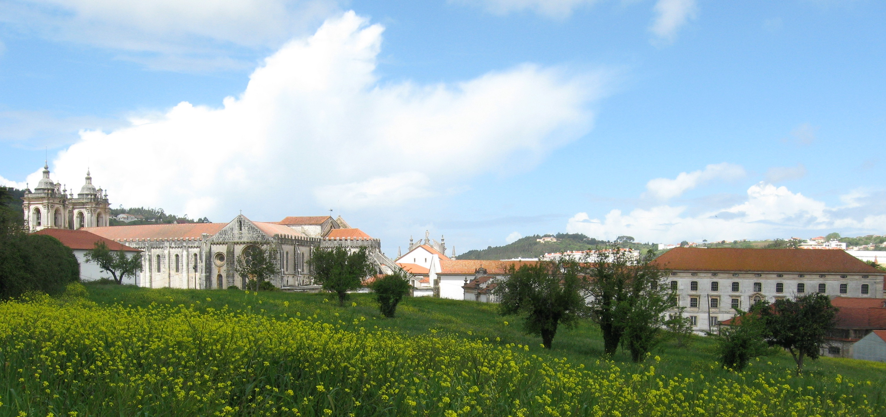 Monastery of Alcobaça, south side church with library